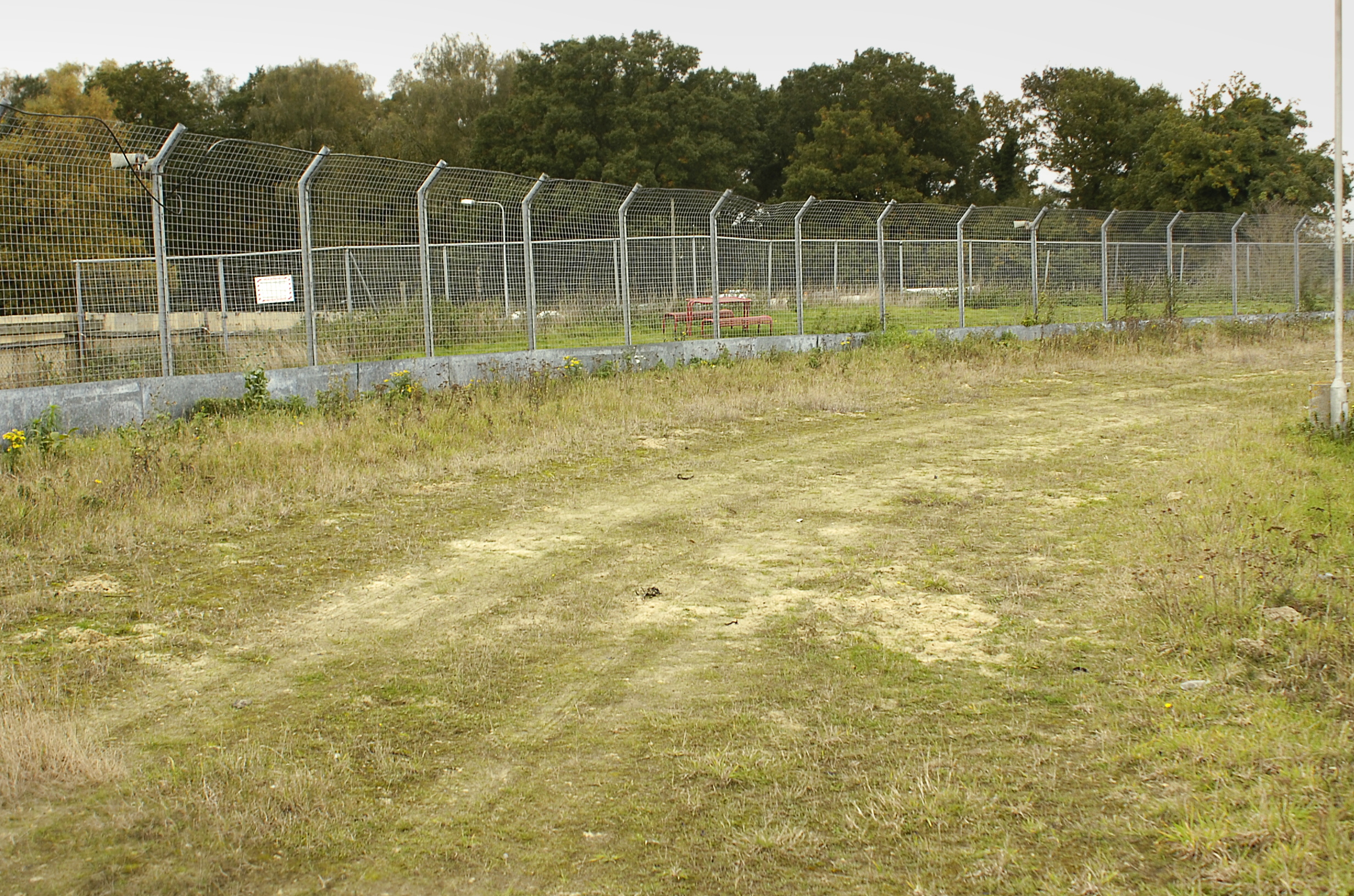 The disused greyhound track (which is on the outside of the current, active motorsport track) at Swaffham Raceway.